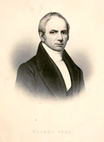 Portrait of Elisha Peck